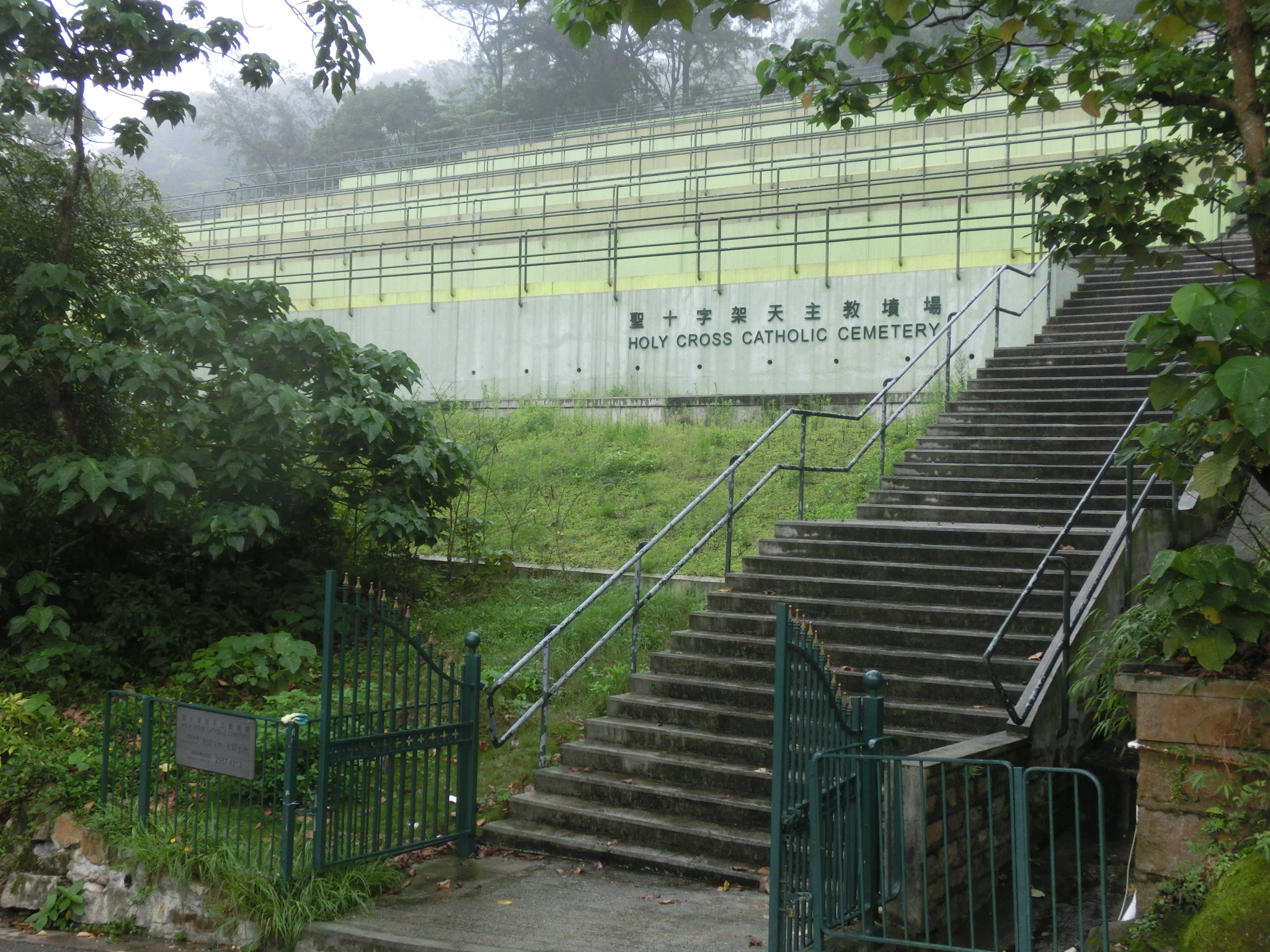 柴灣 歌連臣角聖十字天主教墳場, Holy Cross Catholic Cemetery, Cape Collinson Road, Chai Wan, Hong Kong